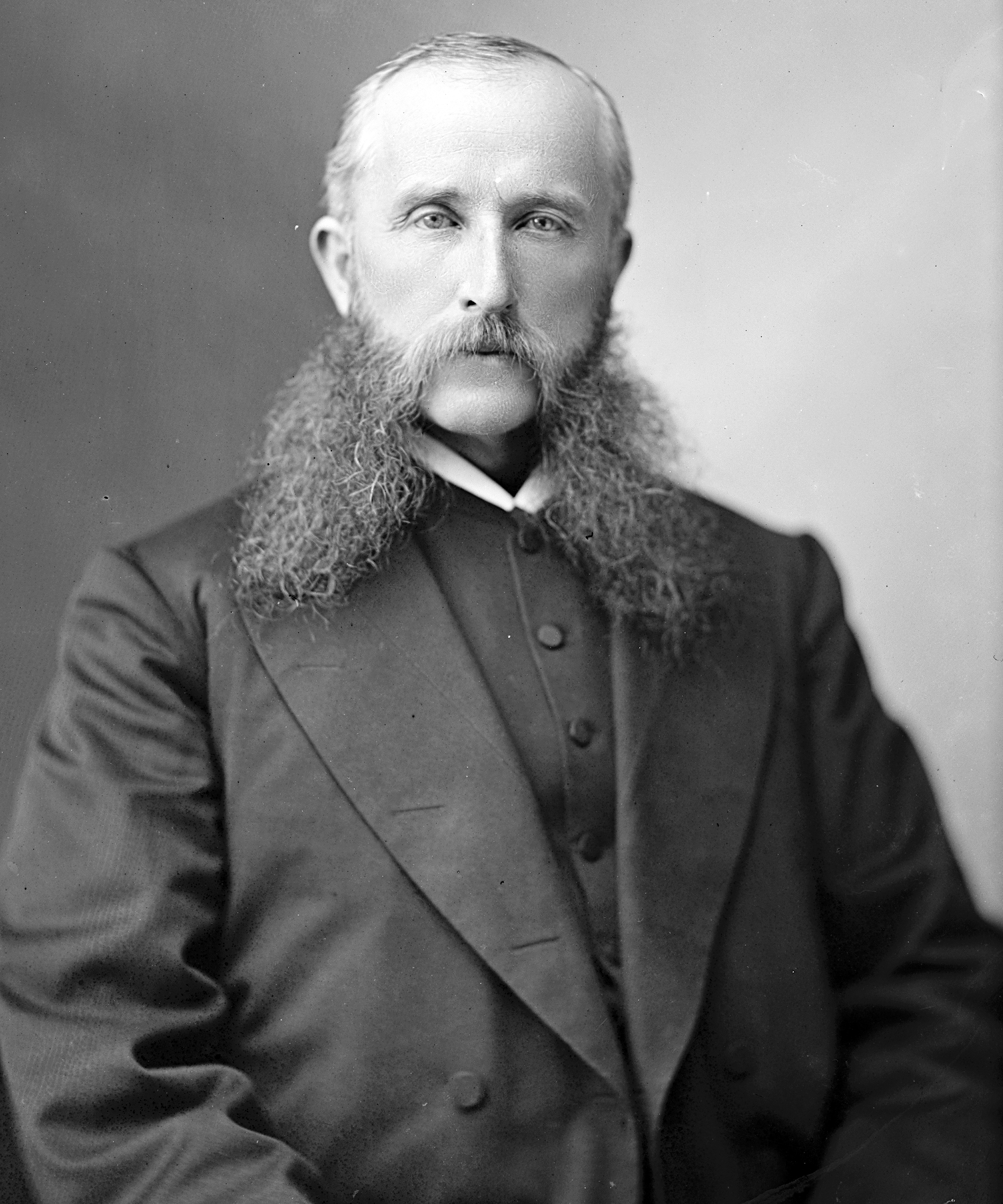 Reuben Knecht Bachman, US Representative from Pennsylvania